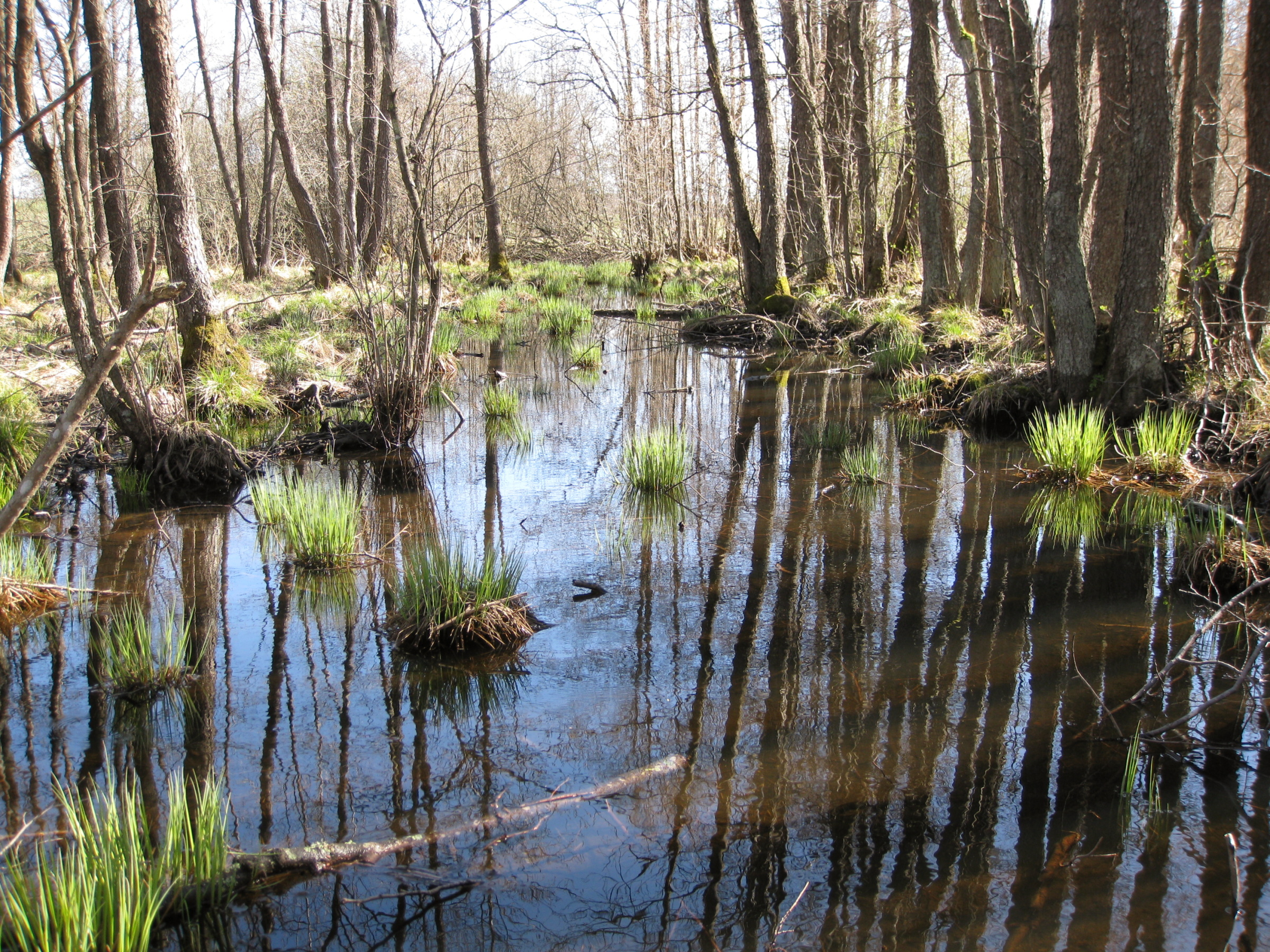 The outlet from lake Mörtsjön, Huddinge, southern Stockholm, Sweden.